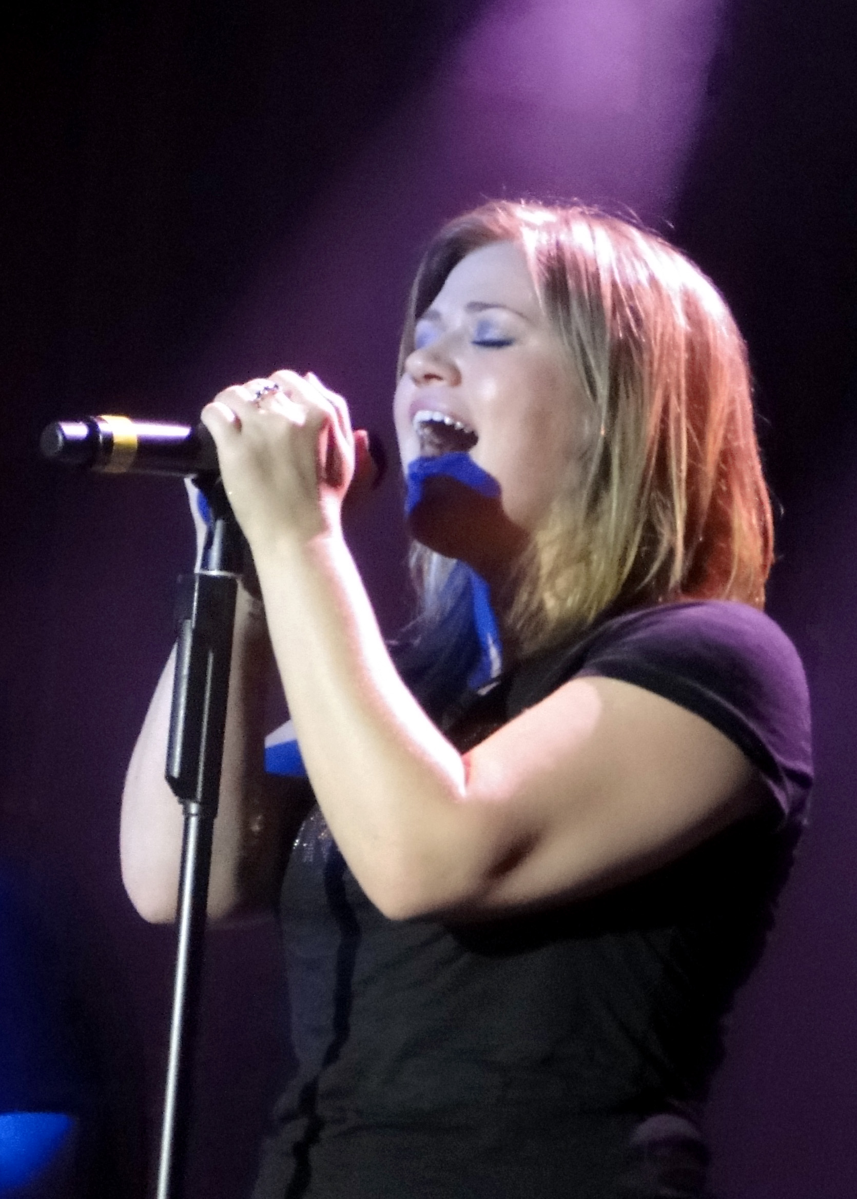 Kelly Clarkson performing live 2010